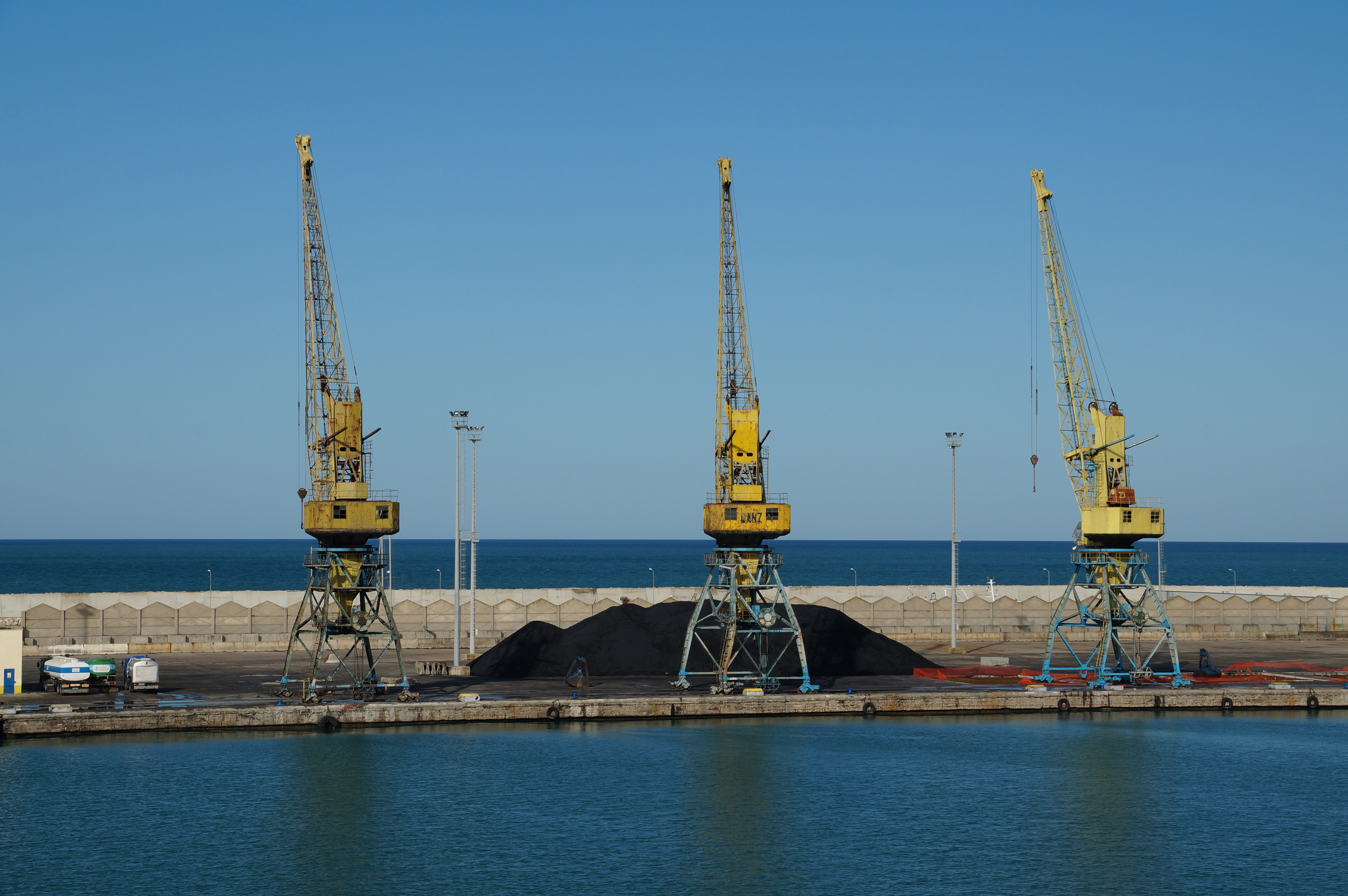 Cranes in the port of Durrës